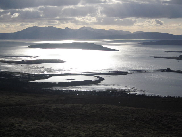 Arran Looking from Whatside Hills over the Firth of Clyde to Little Cumbrae Island and Arran. Of course the ore terminal/jetty at Hunterston as well.